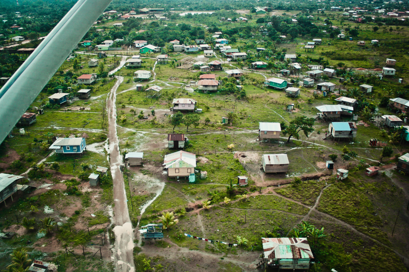 An aerial view of Puerto Cabezas